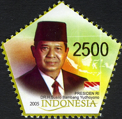 Stamps of Indonesia